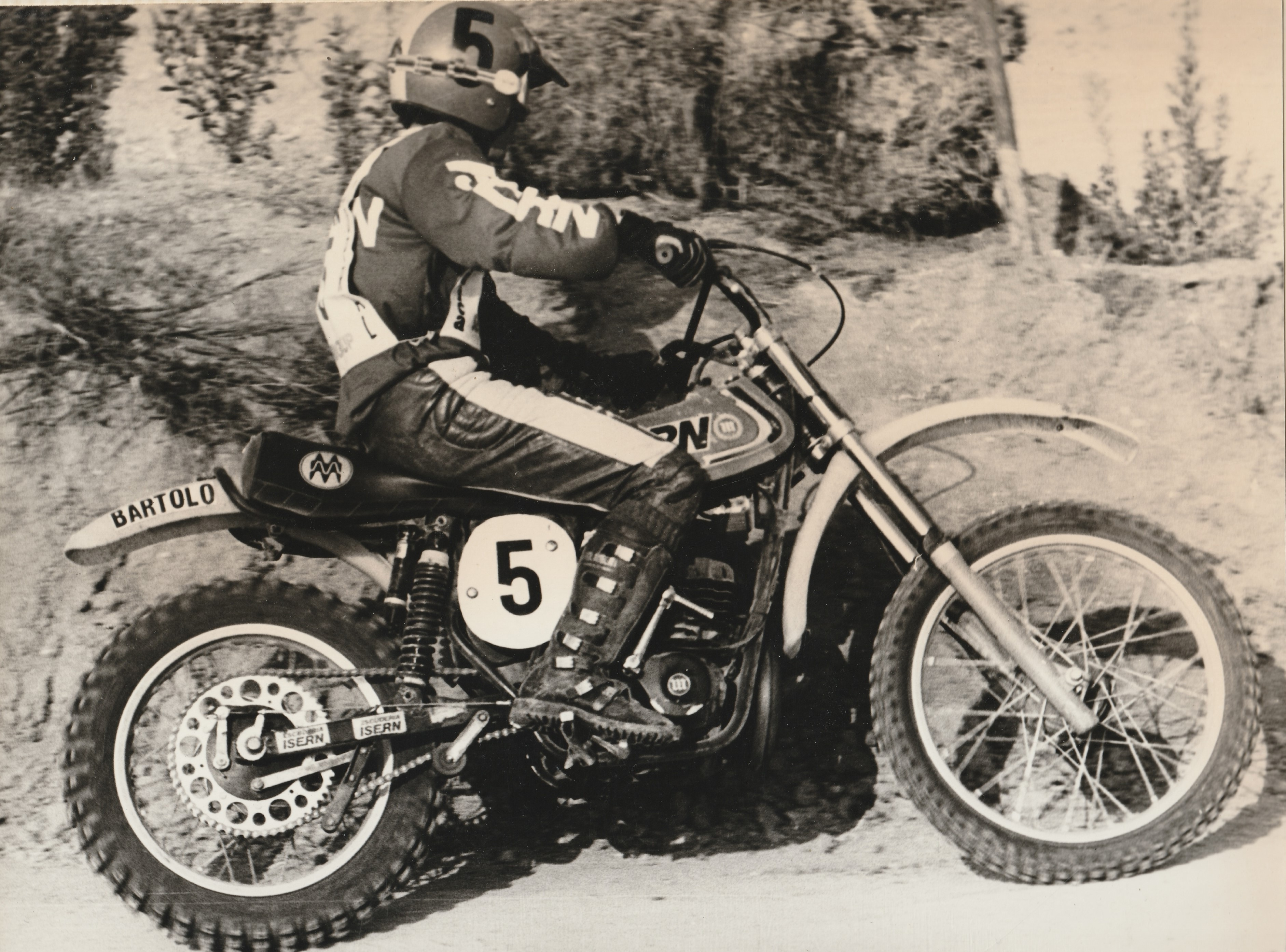 Bartolo Quesada on his Montesa Cappra VB at 1977 150 Milles de Mollet